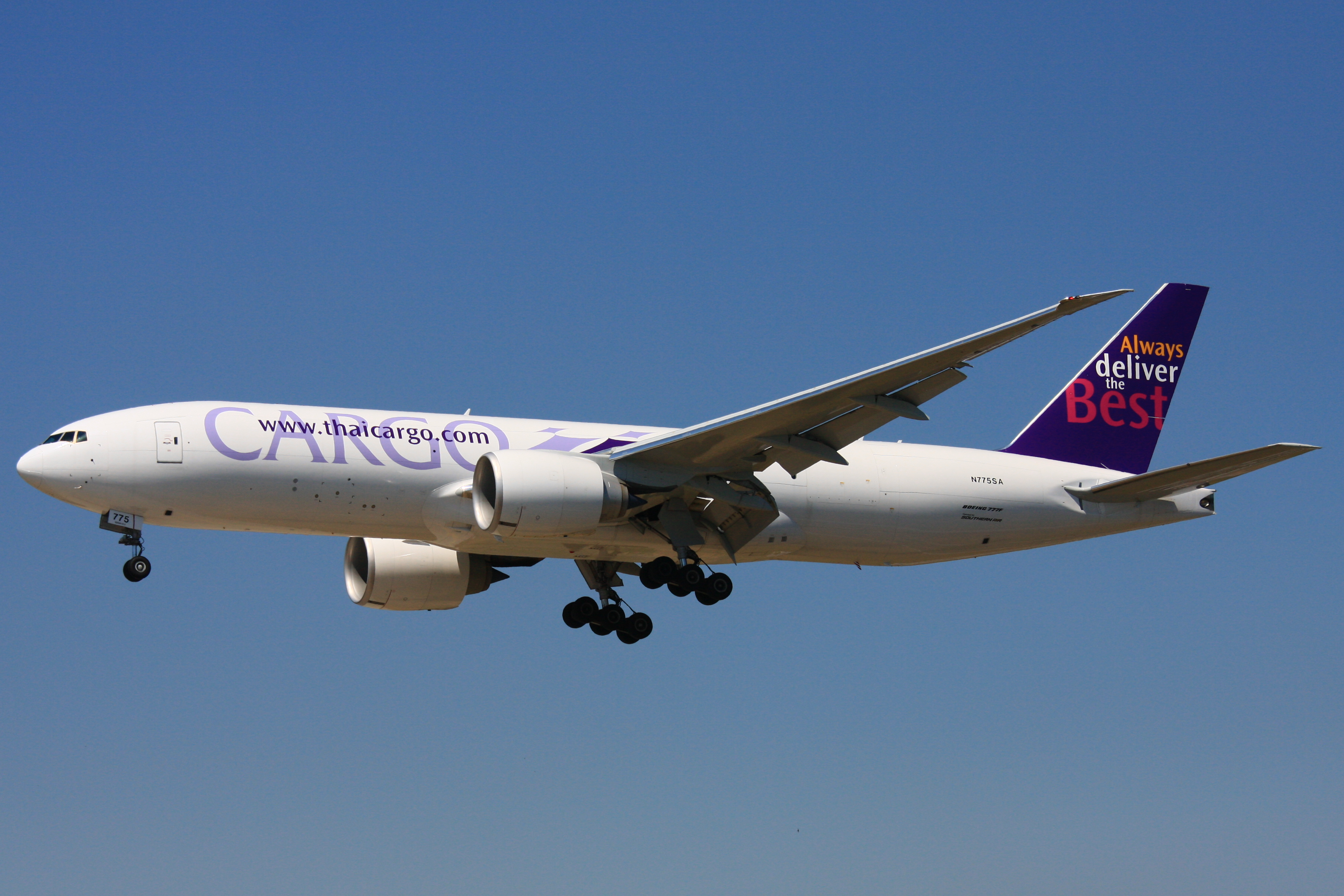 A Boeing 777F of Thai Cargo landing at Frankfurt Airport